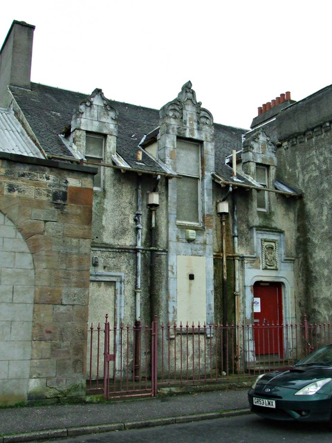 Whitehaugh Barracks